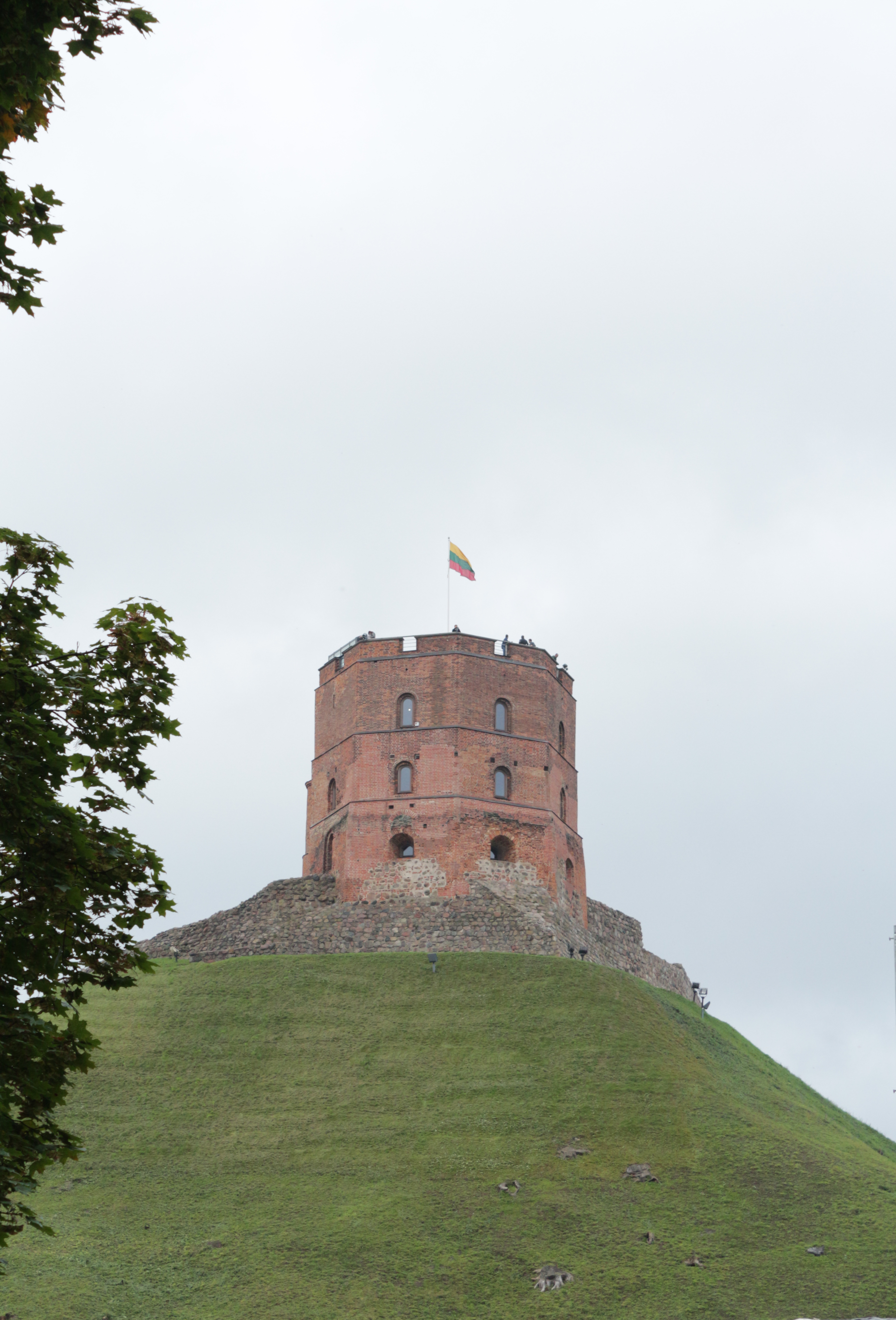 Gediminas tower, Vilnius